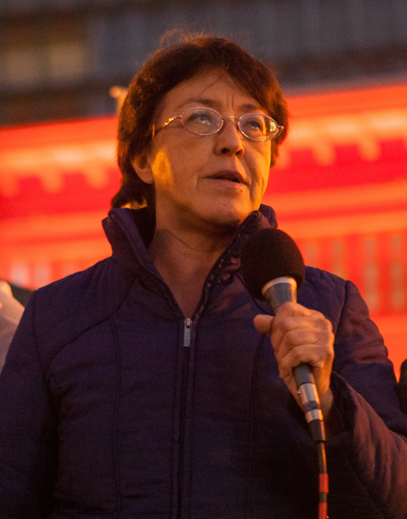 Gloria La Riva, 2016 Peace and Freedom Party presidential candidate, speaks at a rally against President Donald Trump at United Nations Plaza in San Francisco.